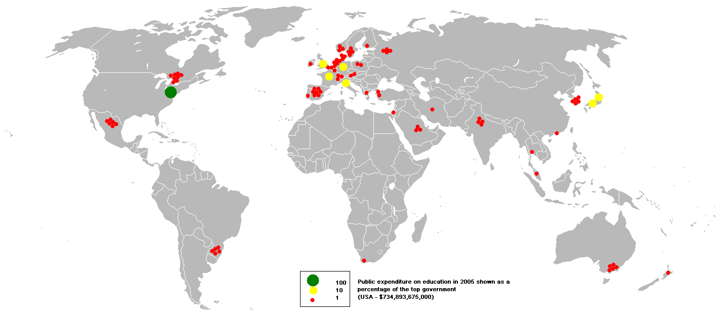 This bubble map shows the global distribution of public spending on education in 2005 as a percentage of the top government (USA - $734,893,675,000). This map is consistent with incomplete set of data too as long as the top market is known. It resolves the accessibility issues faced by colour-coded maps that may not be properly rendered in old computer screens.